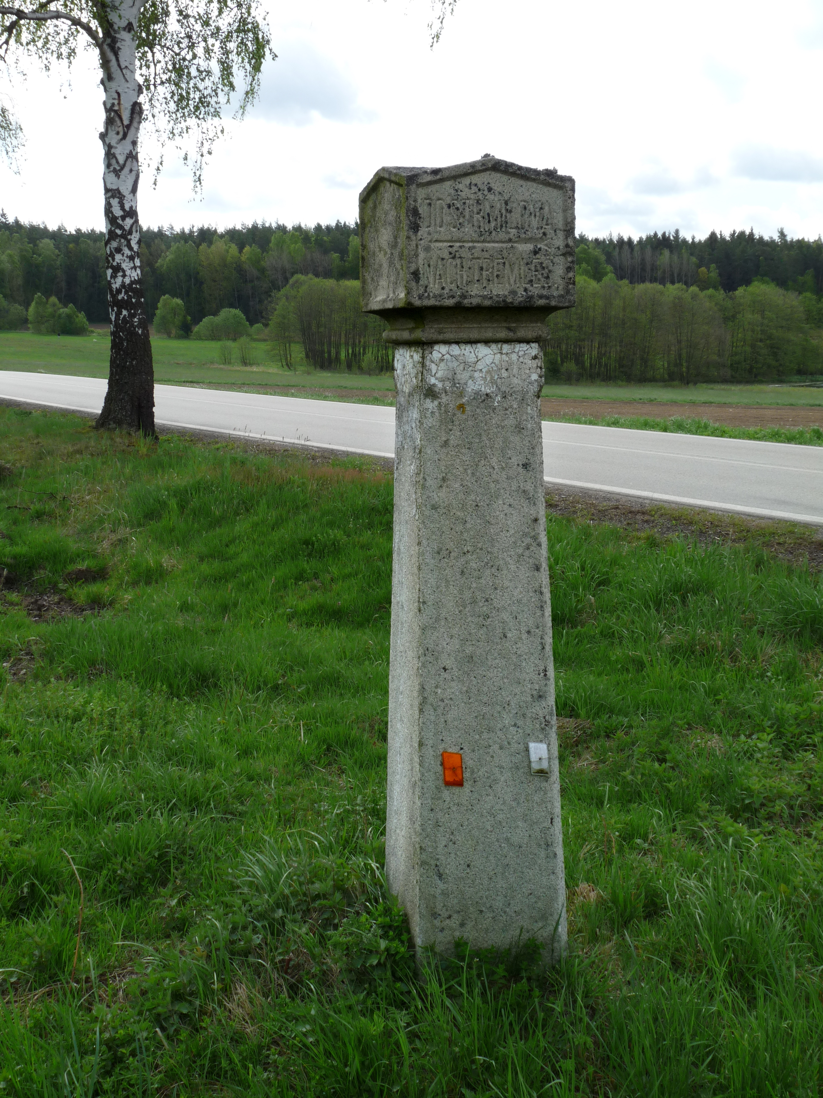 Roadside stone pointing towards the municipality of Strmilov, Jindřichův Hradec District, South Bohemia, Czech Republic